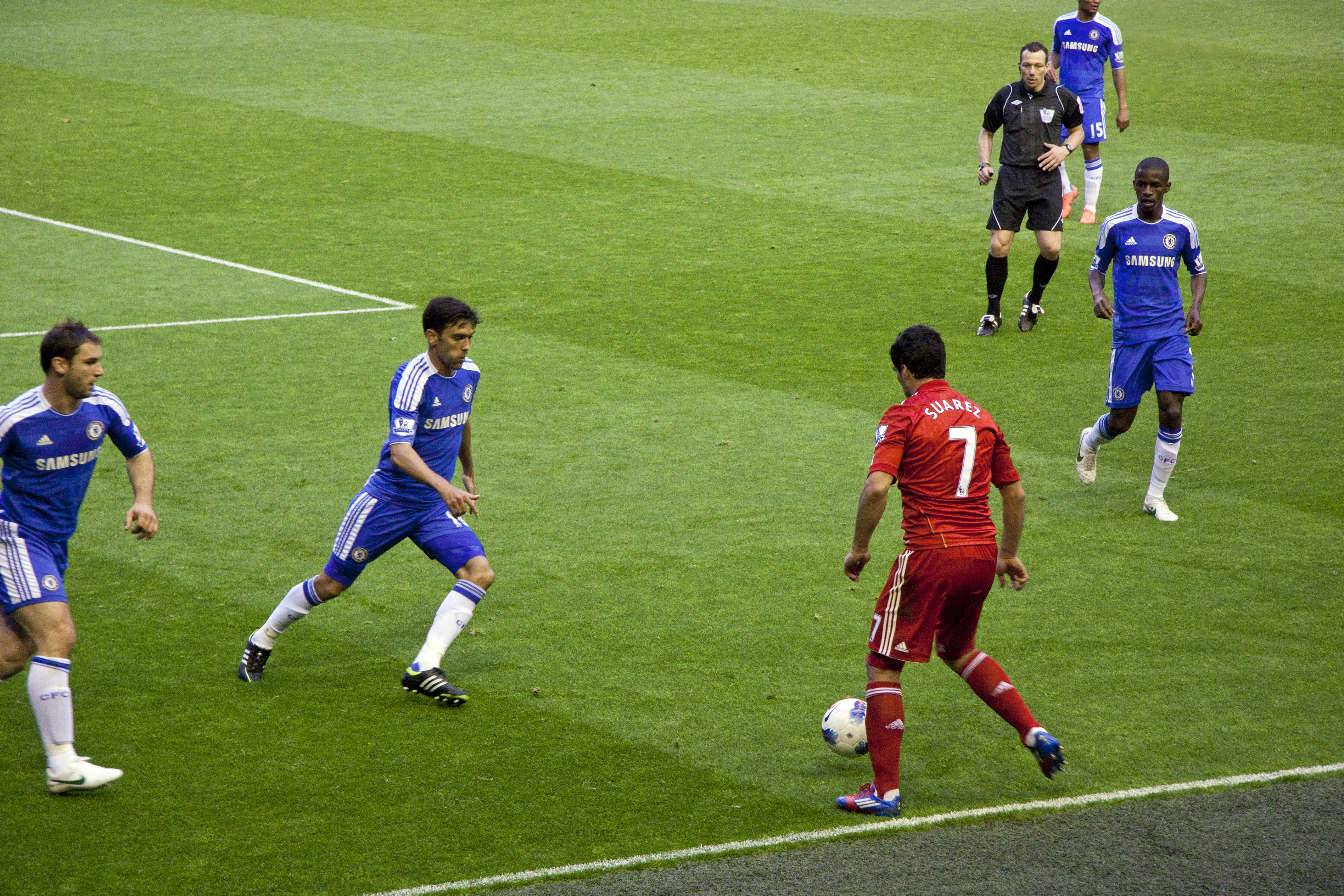 Luis Suarez against Chelsea FC defenders.